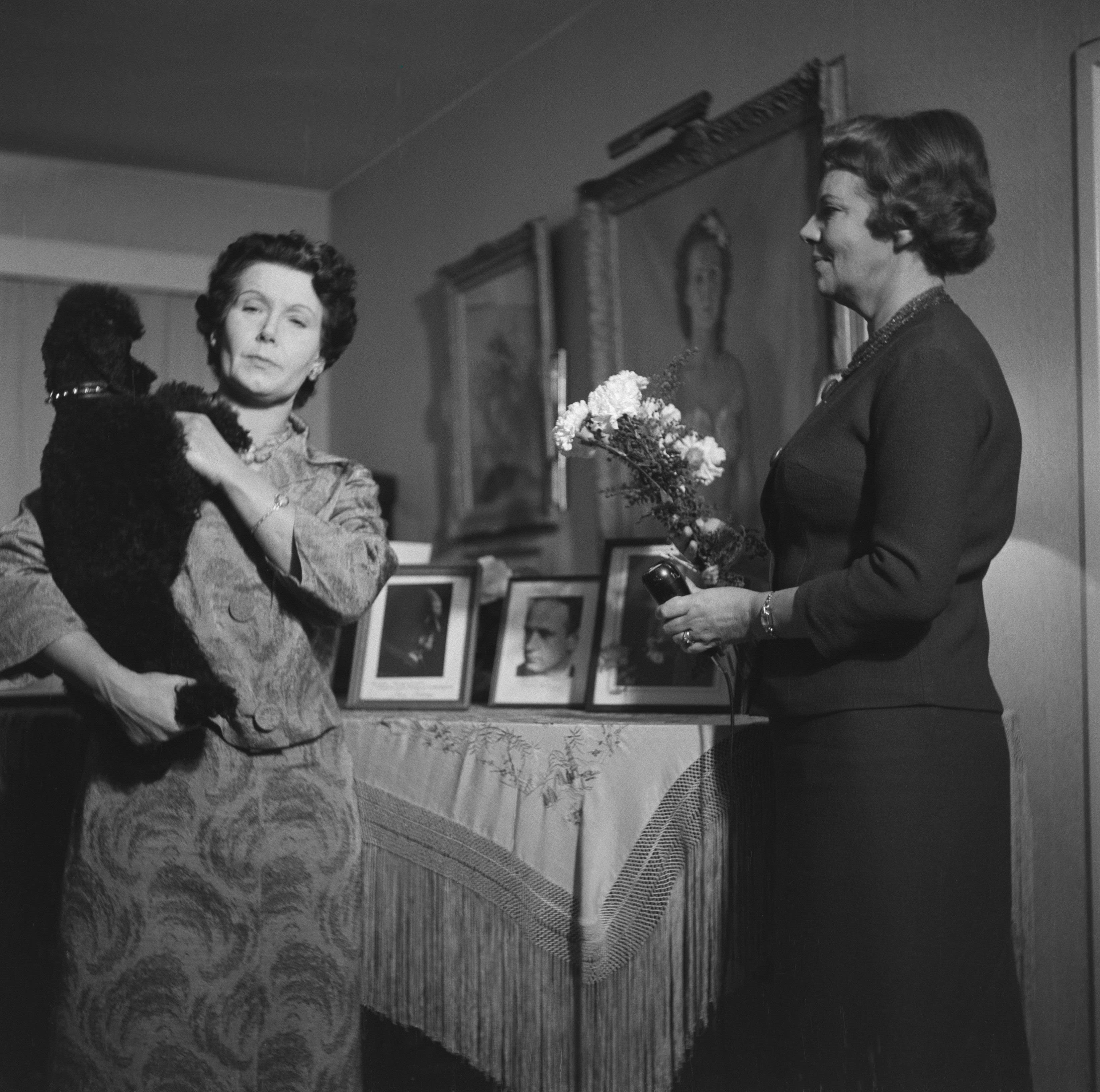 Photograph of the Finnish opera vocalist Aulikki Rautawaara (1906–1990) holding her dog, interviewed by the Finnish Yleisradio journalist Cay Idström (1917–2005).